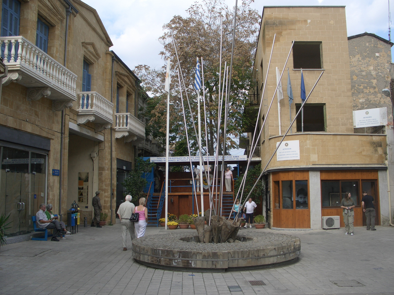 The "Green Line" in Ledra Street, Nicosia, Cyprus, in the year 2006